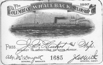 The S.S. Christopher Columbus was a whaleback excursion liner designed by Alexander McDougall and built in 1892-1893 in Superior, Wisconsin by American Steel Barge Company for service to ferry passengers to and from the World's Columbian Exposition, and later placed in general and excursion service to various ports around the Great Lakes. This image of a pass (entitling the holder to ride free) uses the Sprague painting and is from 1897 when she was in general excursion service.